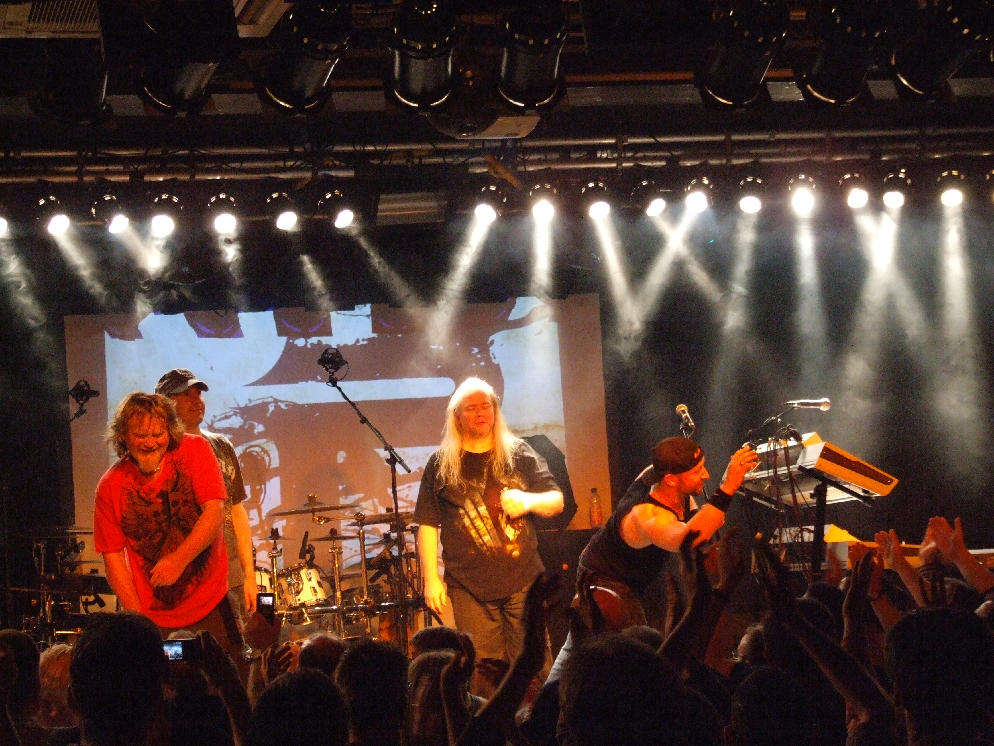 Pendragon after concert, Aschaffenburg, 2010